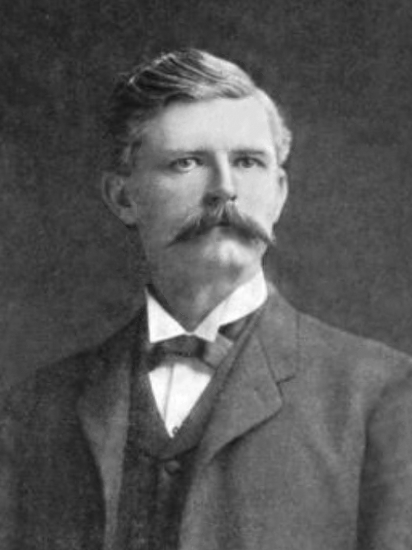 George Farmer Burgess (1861-09-21 - 1919-12-31), U.S. Representative from Texas (1901-1917).